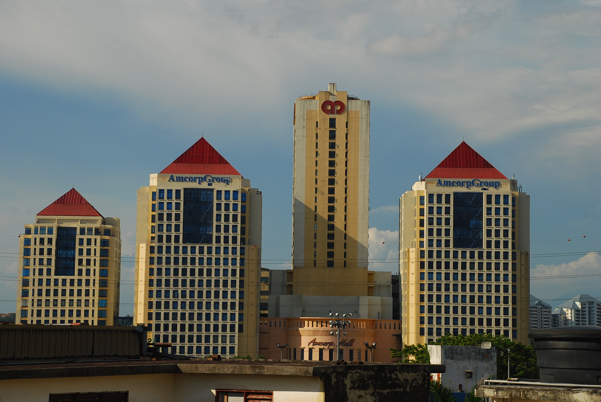 View of the Amcorp mall from afar.